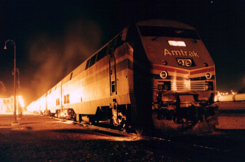 Amtrak #69 at Barstow, California on the westbound Southwest Chief